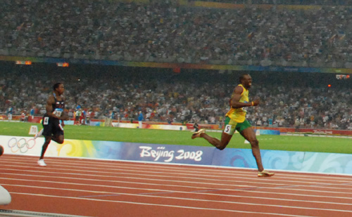 Usain Bolt during his race in the 200 meters cool man, won in 19.30, new world record, at the Bird's nest, Beijing, august 20th 2008